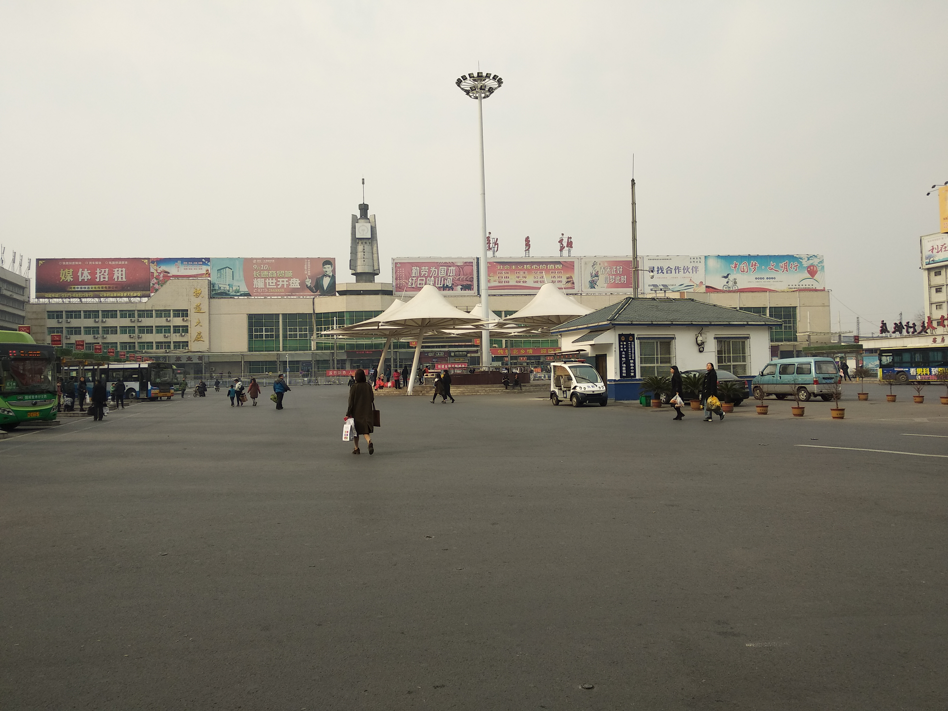 Here is the square of Xinxiang Railway Station with a bus harbor. This station also seems to be kind of "old", regardless of inside or outside. By the way, there is still a few buses equipped with front engine in operation in this city.